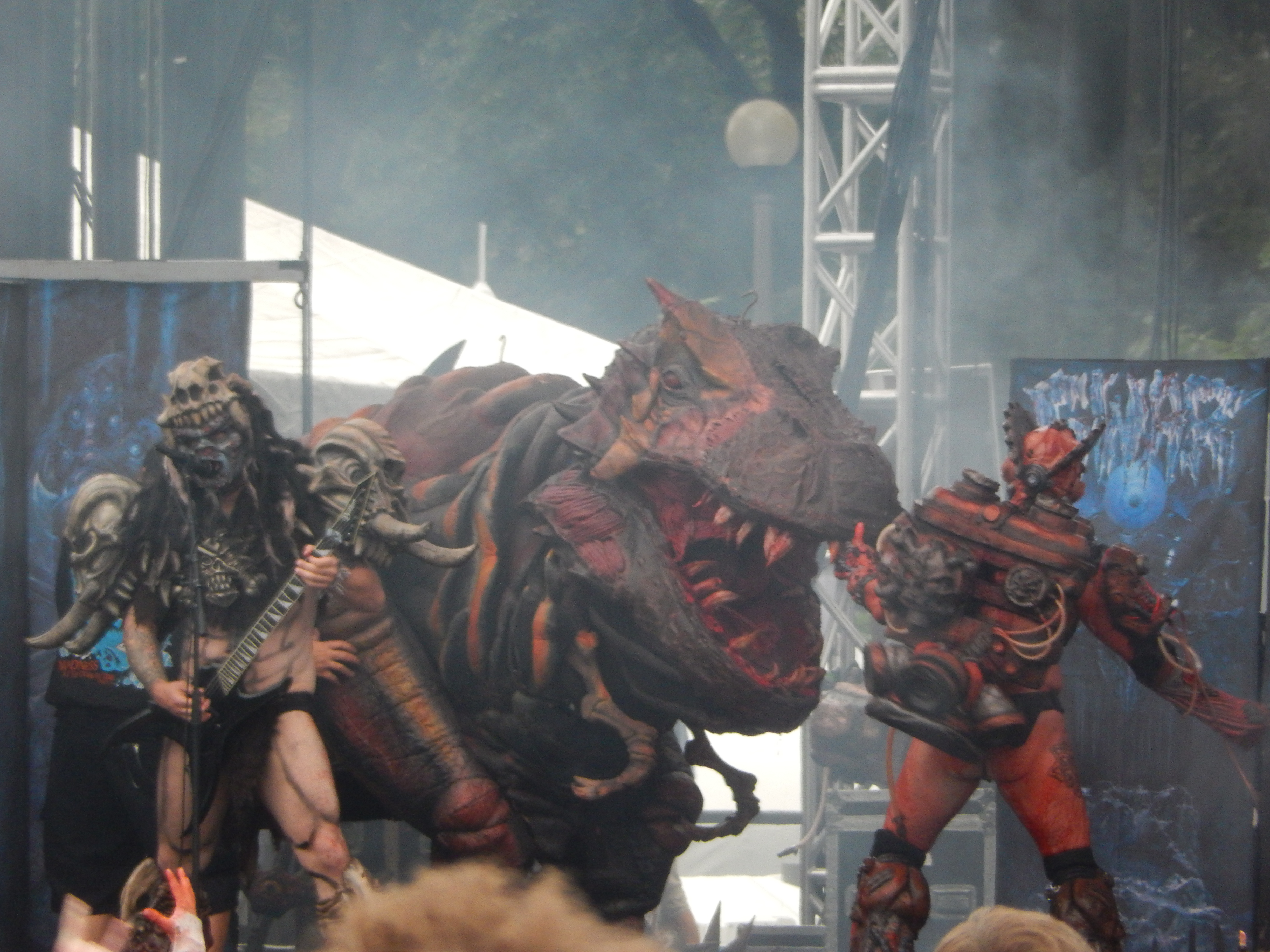 Gwar performing live at Riot Fest (2014).